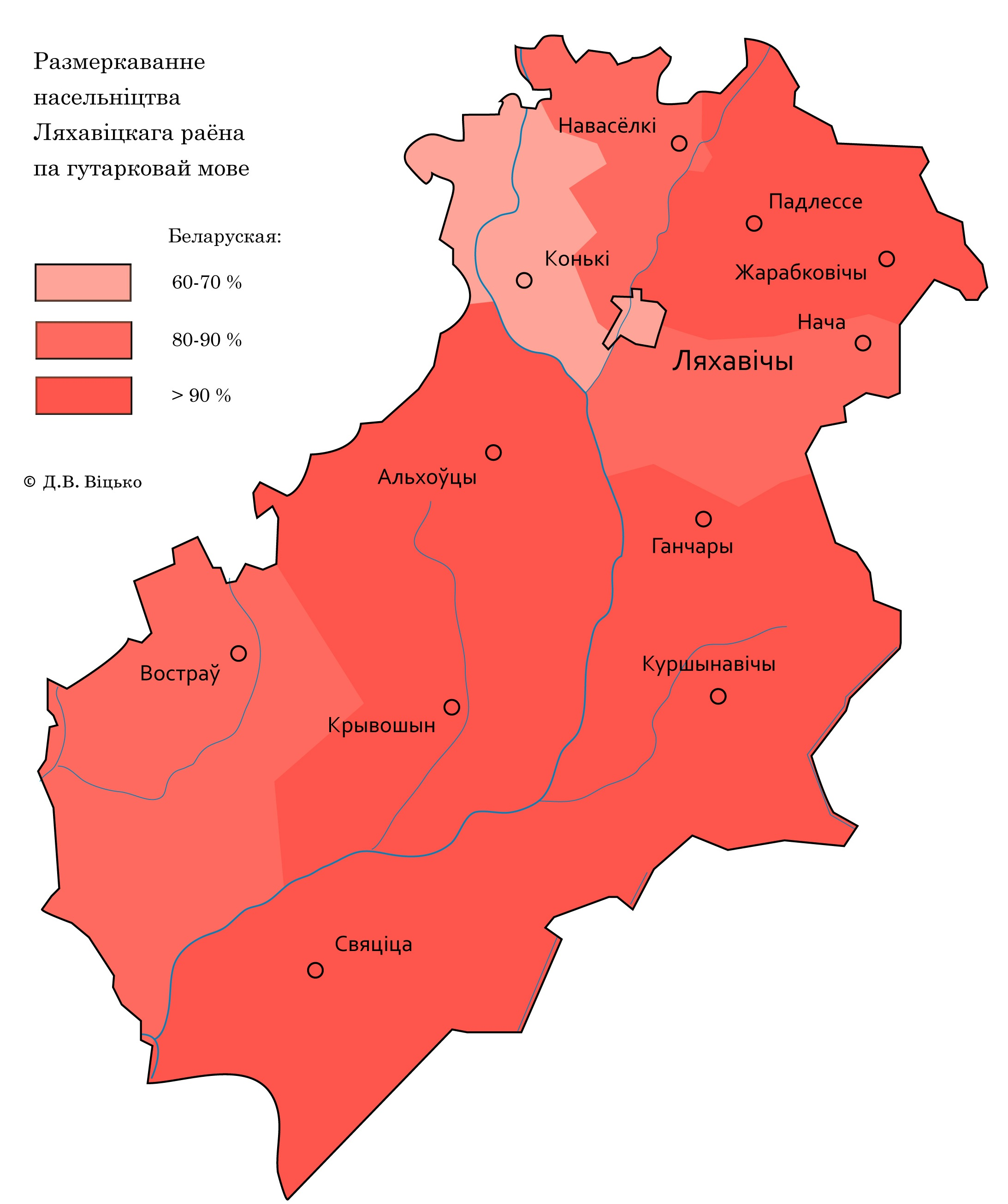 Language composition of the population of Lyakhavichy Raion 2009